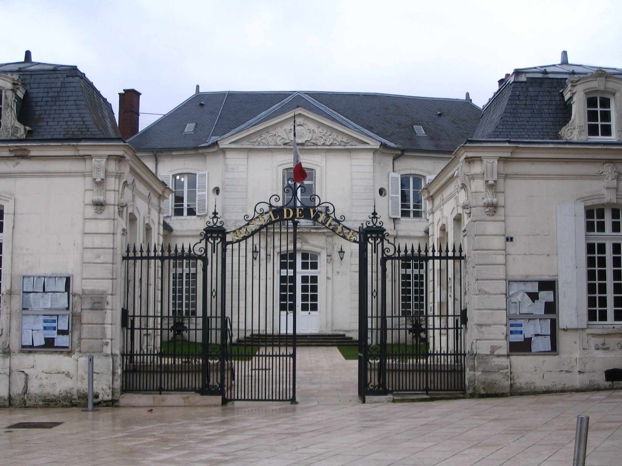 The town hall of Villers-Cotterêts, Aisne, France.